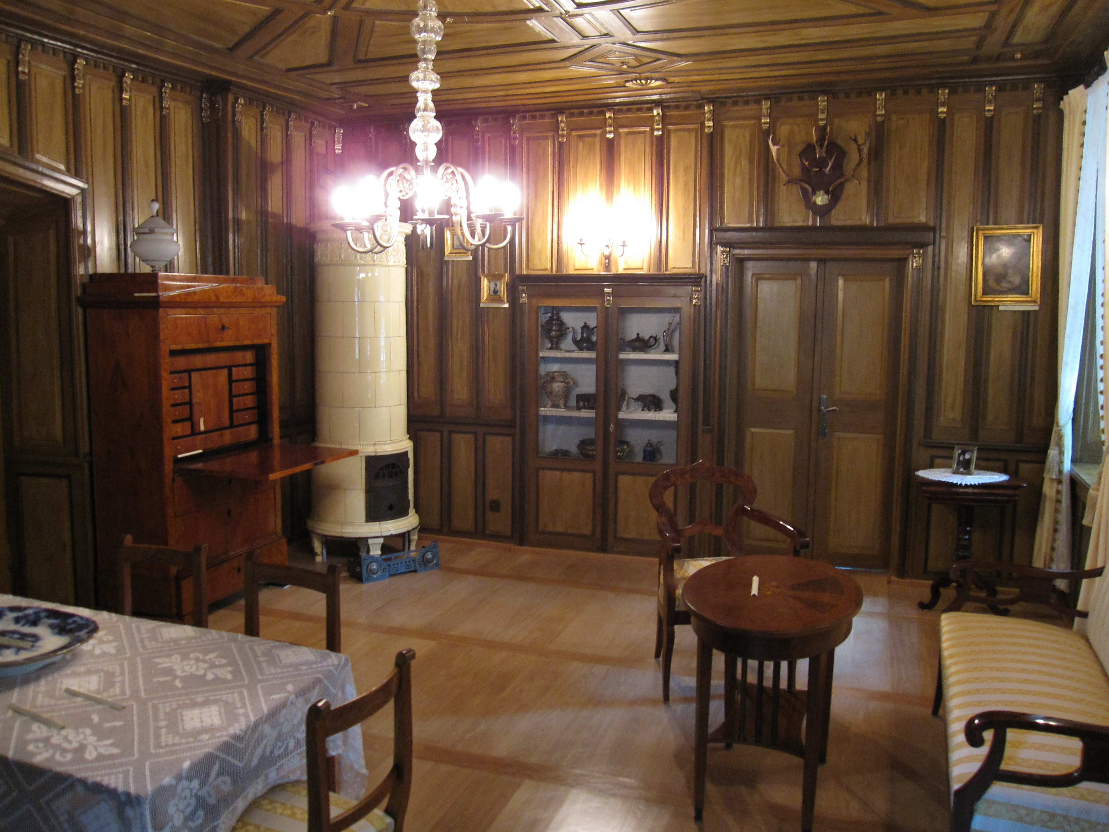 Biedermeier room in the Museum in Chrzanów named in honour of Irena and Mieczysław Mazaraki.